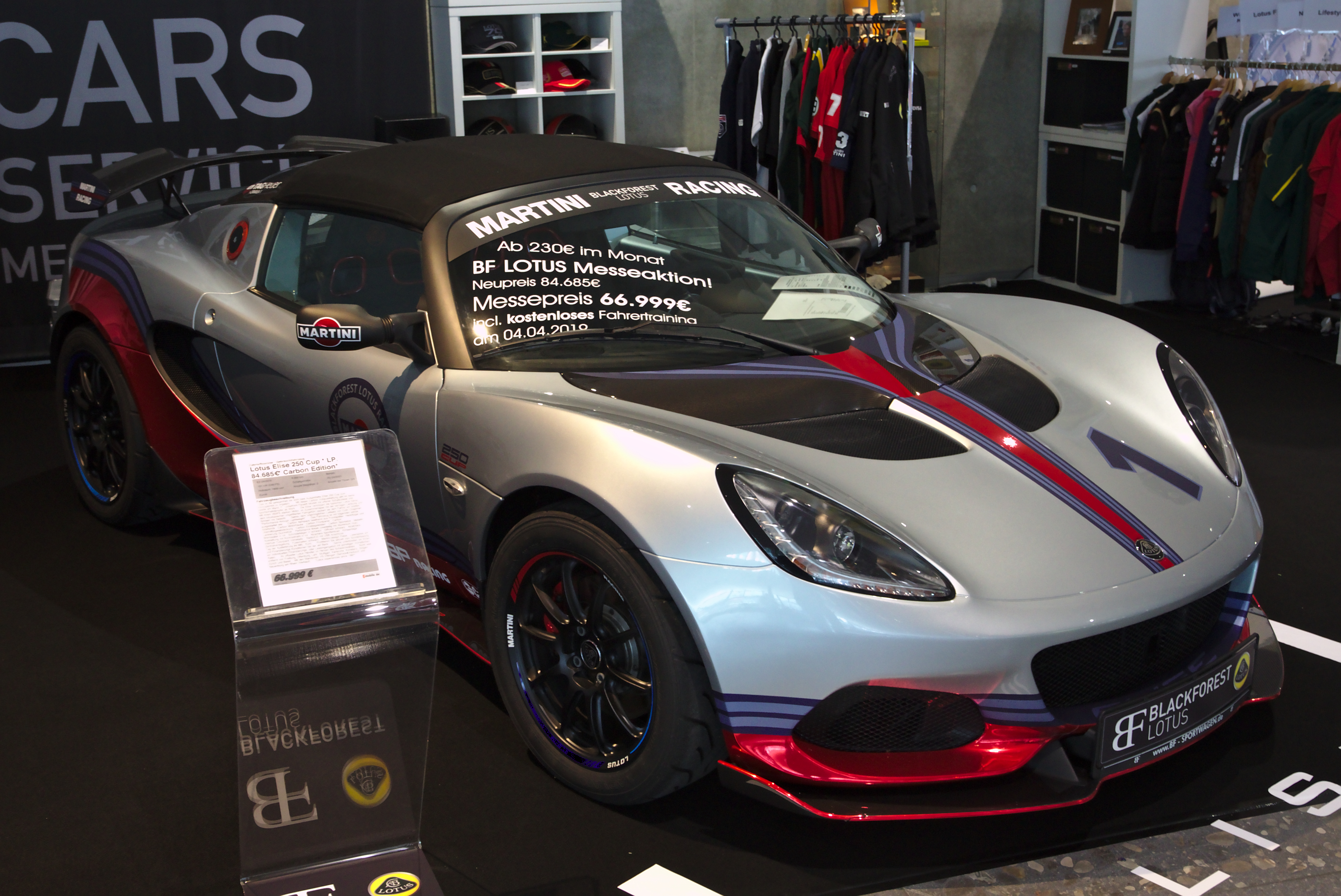 Lotus Elise 250 Cup LP at Retro Classics 2019